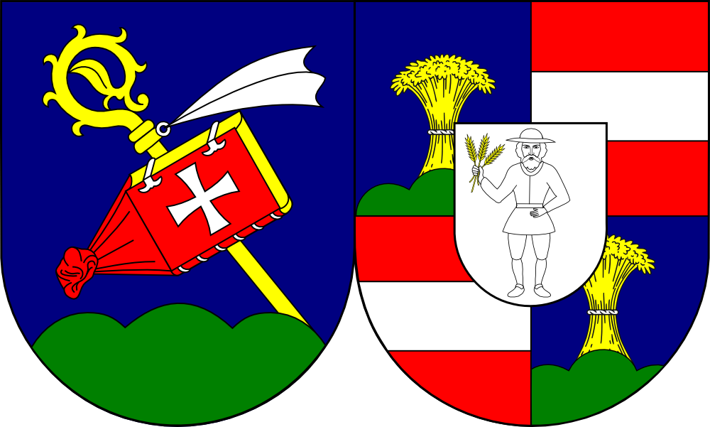 Coat of arms (shield only) of Robert Stadler, abbot of Schottenstift (Scottish Abbey), Vienna (1750 - 1765). Based on ZELENKA, Aleš: Die Wappen der wiener Schottenäbte, p. 24.